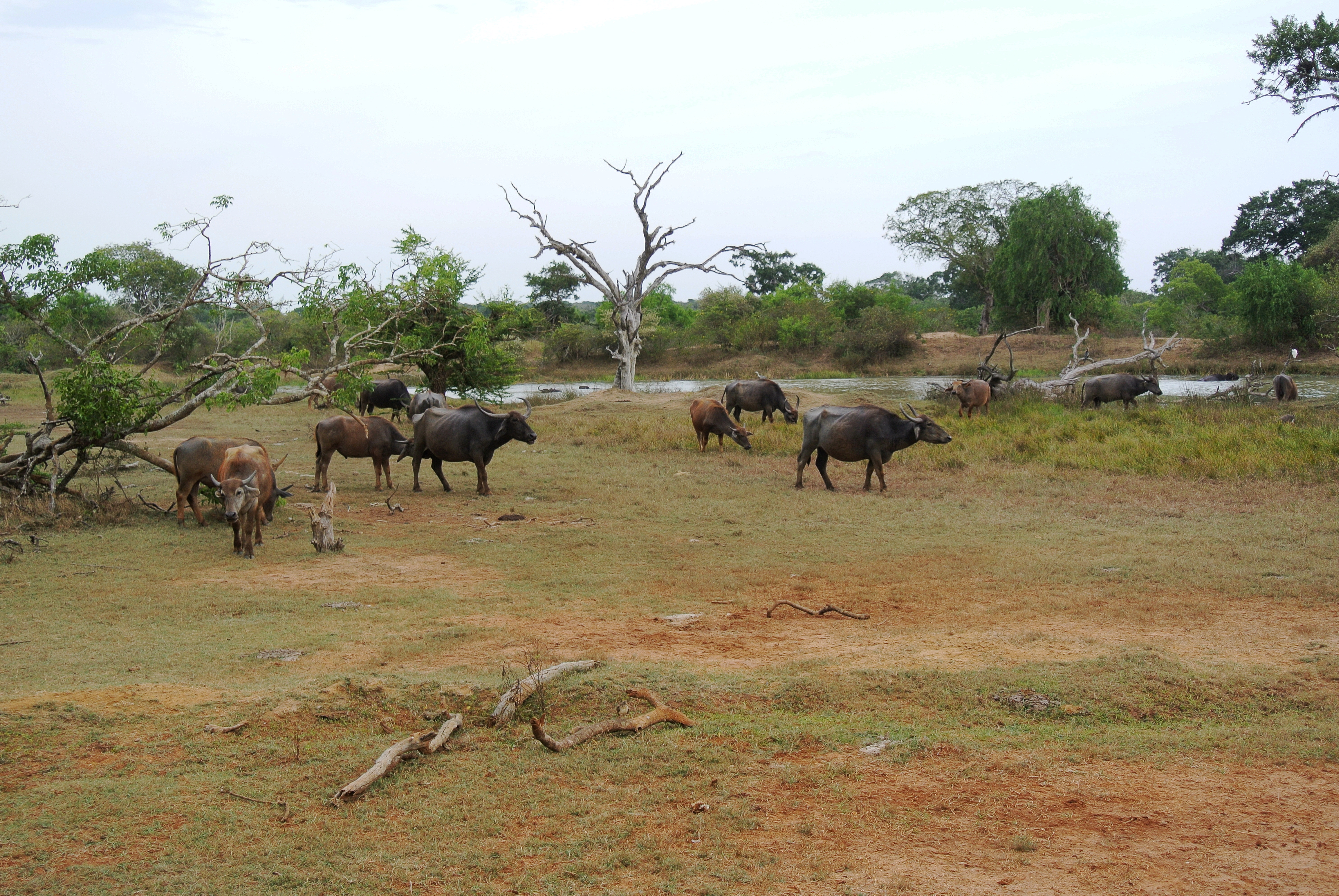 Water Buffalos in Yala National Park. The origin and genetic status of the so called wild buffalos in Sri Lanka is unclear. Nikon 1 V1 + 1 Nikkor VR 10-30mm f/3.5-5.6